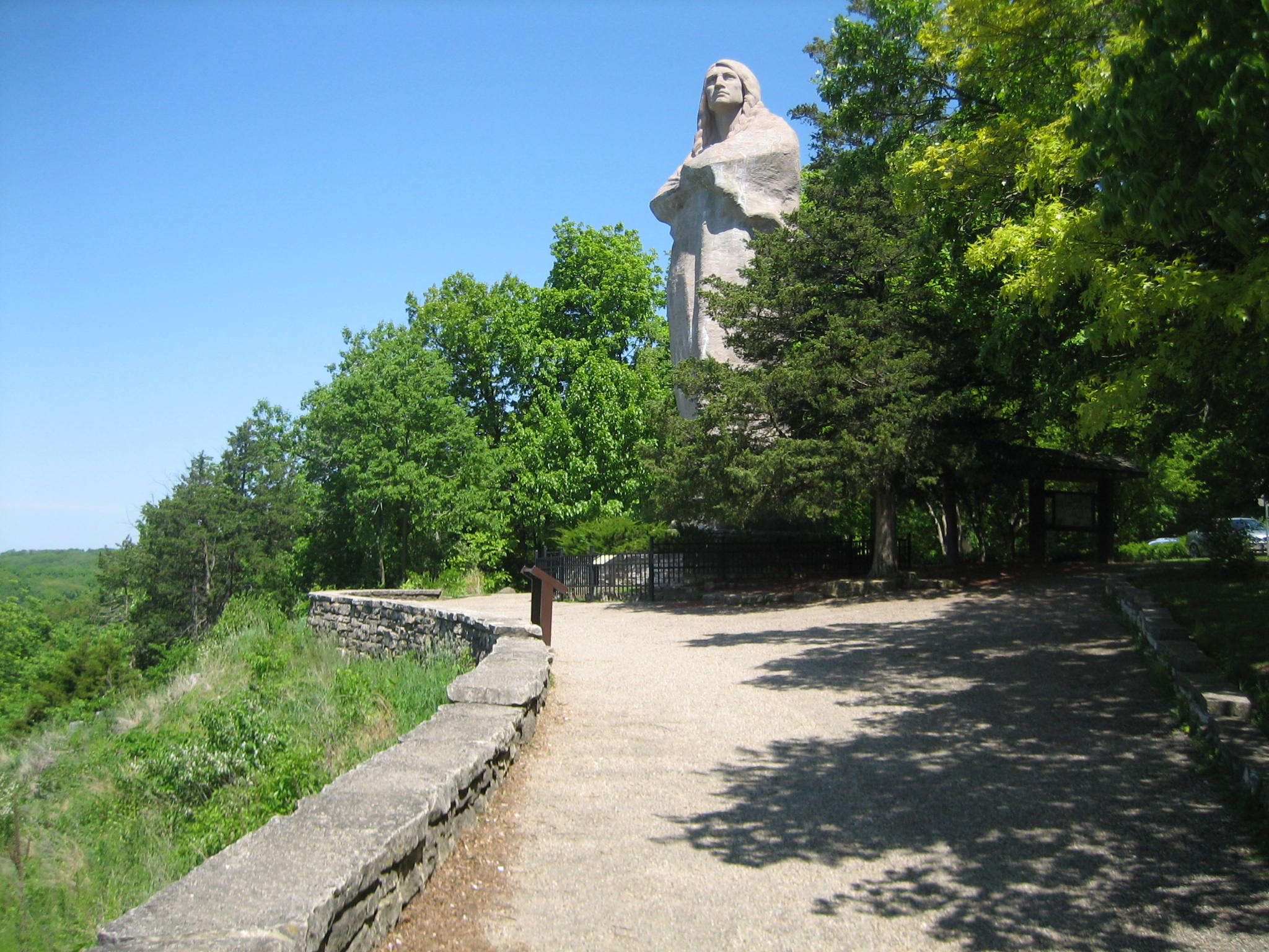 Lowden State Park, near Oregon, Illinois, USA. Lorado Taft's Black Hawk Statue.